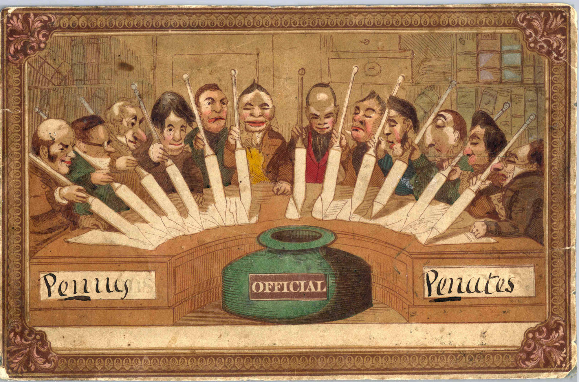 It was a postcard Theodore Hook sent to himself in London as a joke.